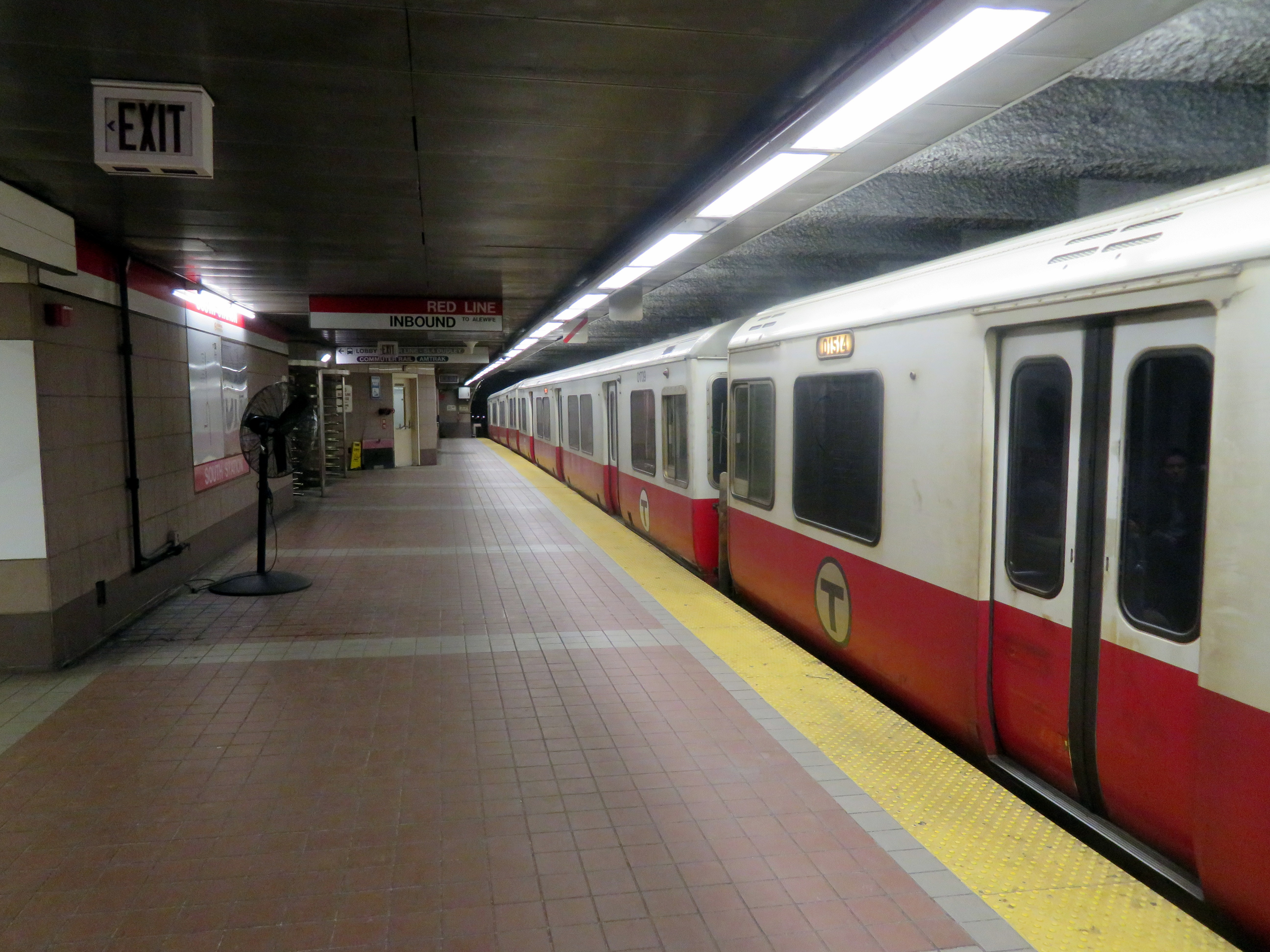 A northbound Red Line train at South Station in December 2019